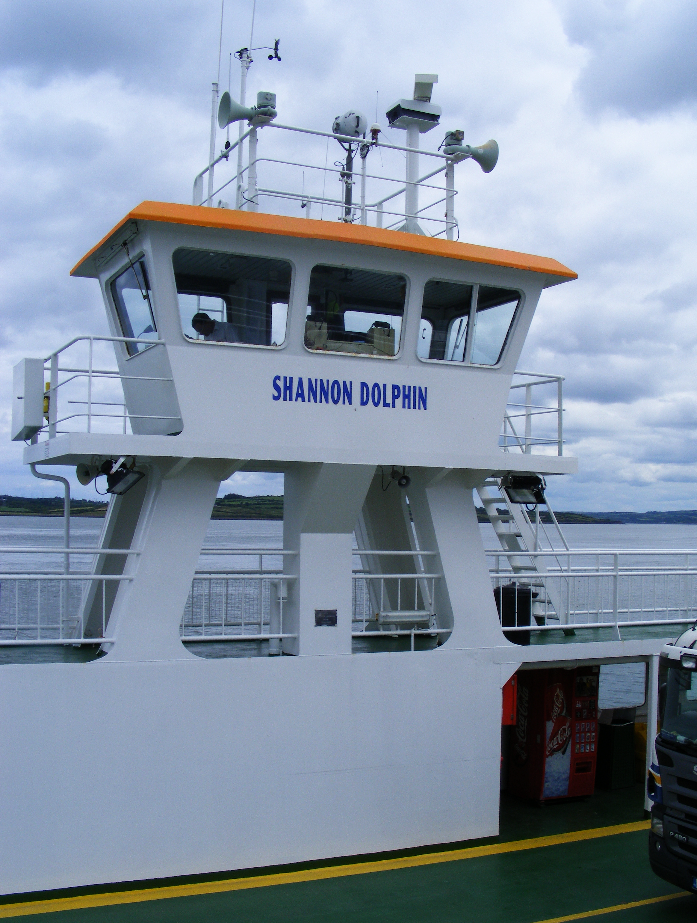 Shannon Dolphin (Shannon Ferry service) - July 2010